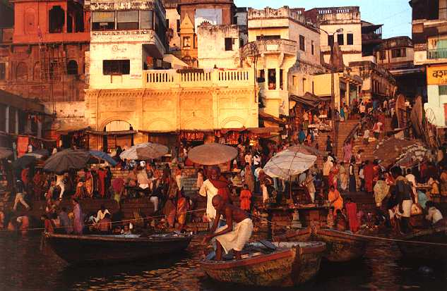 Summary Desaswamedh ghat along the Ganges River in Varanasi, India, crowded with pilgrims at sunrise. Photographed by Andy Carvin in November 1996.